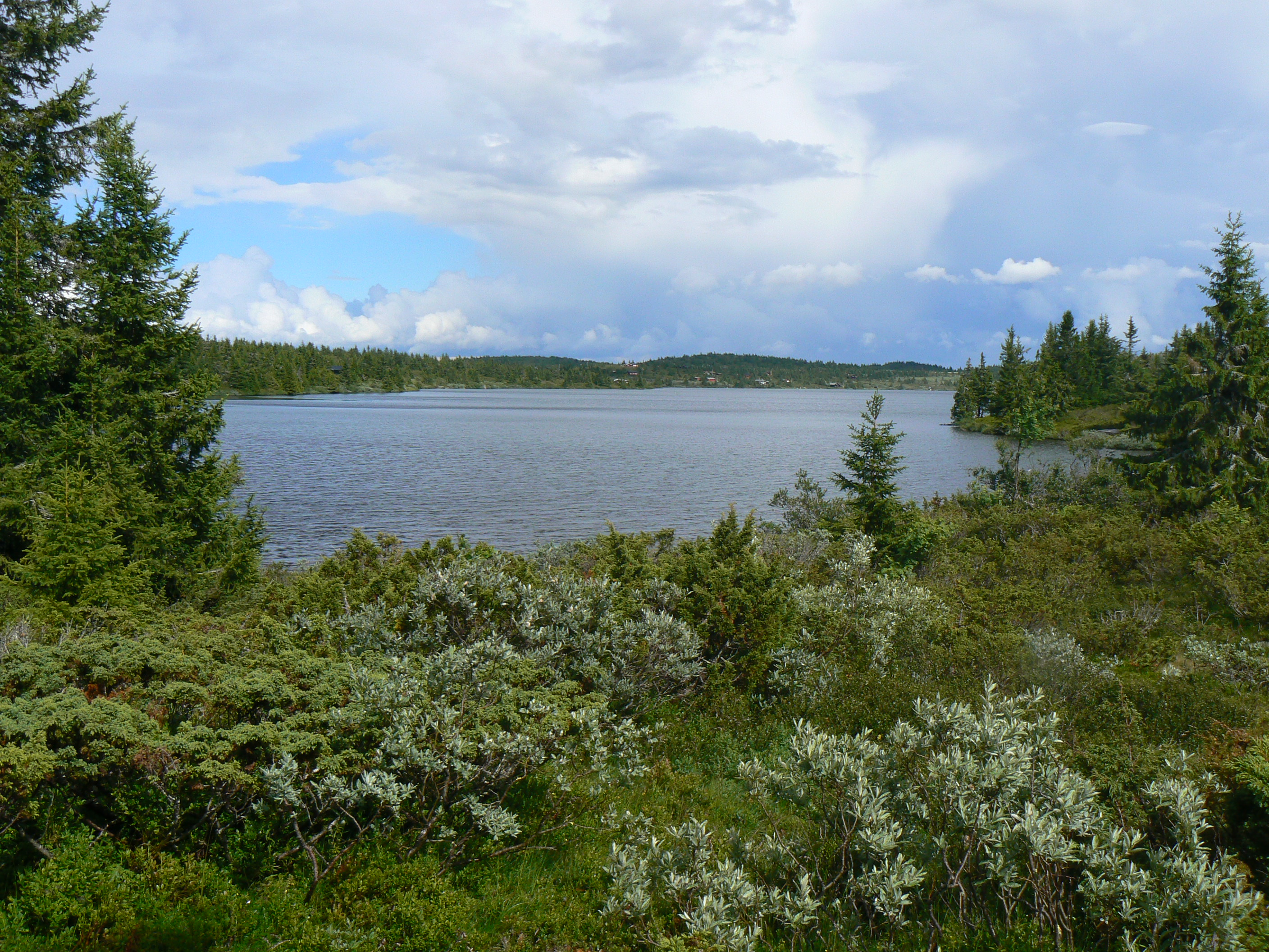 Lake Nevelvatnet northeast of Lillehammer, Norway.